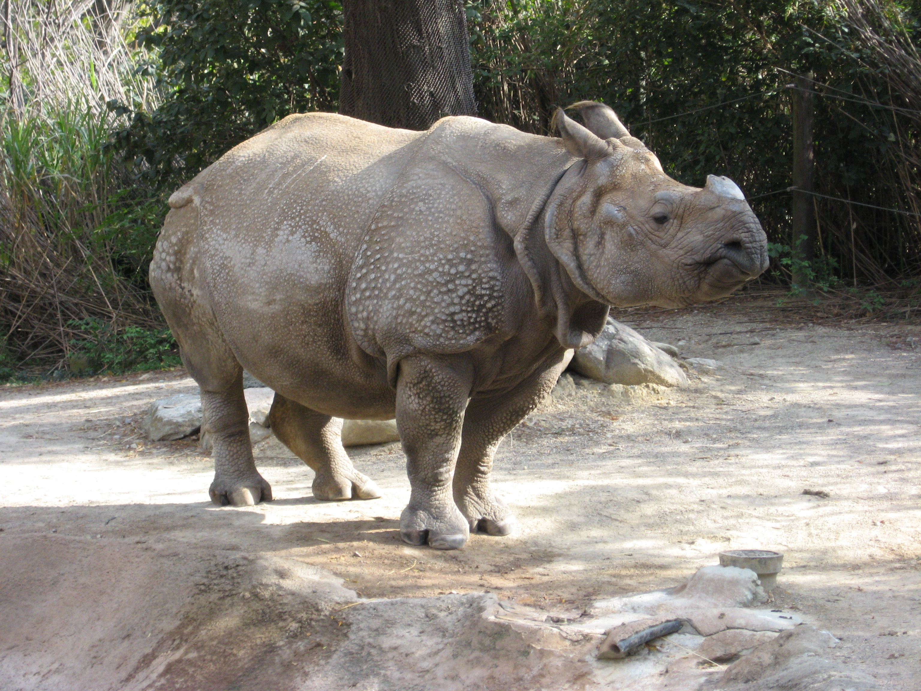 An Indian rhinoceros, at the Cincinnati Zoo